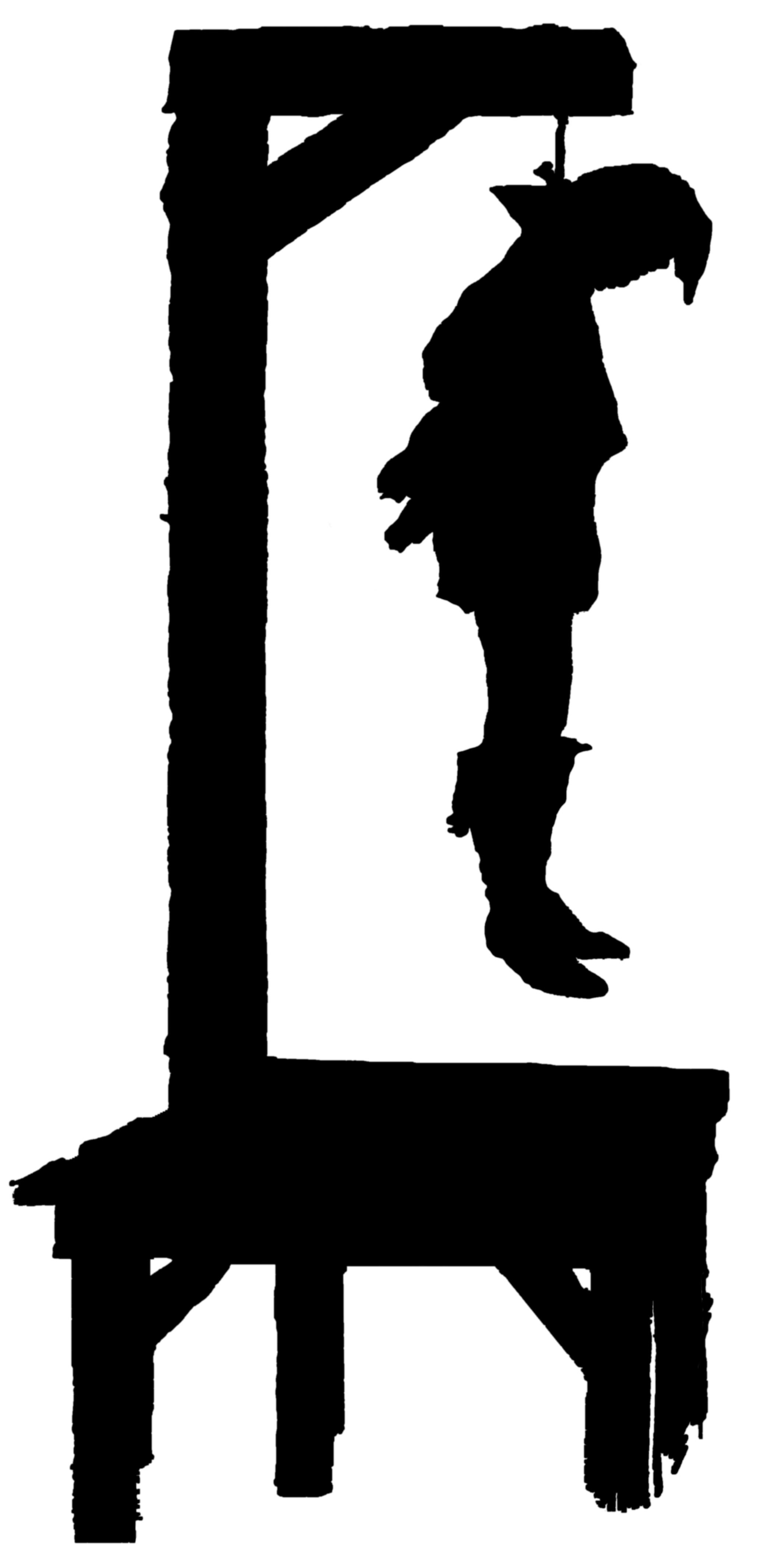 A Reluctant Tax-Payer